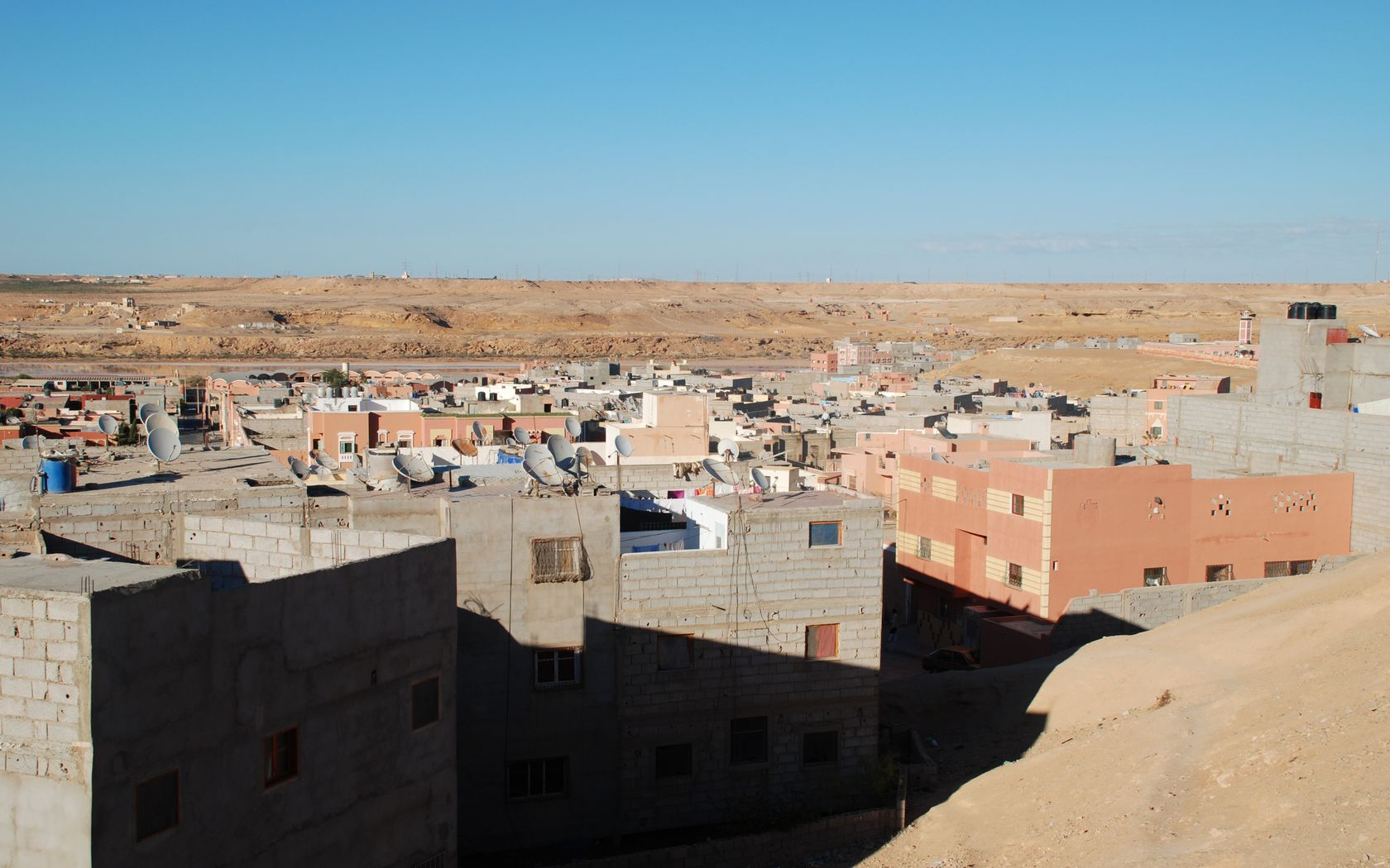 Center towards Saguia el Hamra in El Aaiún—Laayoune, Western Sahara.